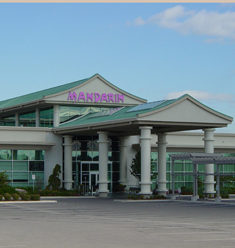 Mandarin